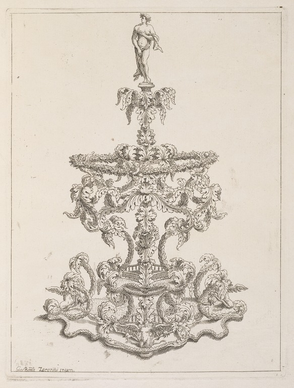 The plate shows the front view of a table sculpture designed for the banquet hosted by Senator Francesco Ratta in Bologna on February 28, 1693. The statuette is of a standing nude in a contrapposto stance, who is crowned with laurel, Apollo's attribute, but who assumes the formalized poses associated with Venus.